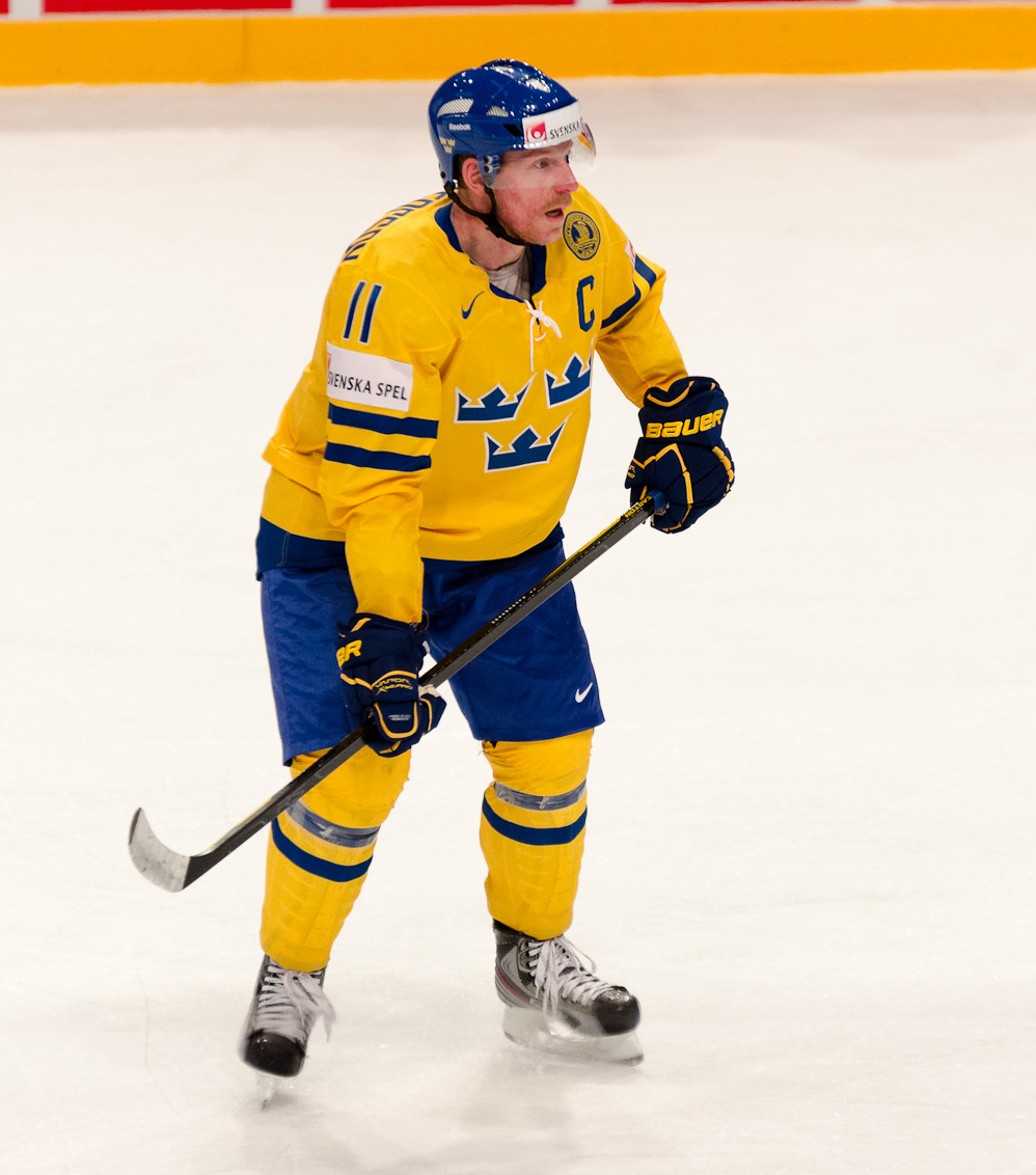 Daniel Alfredsson, 2012 IIHF World Championship.